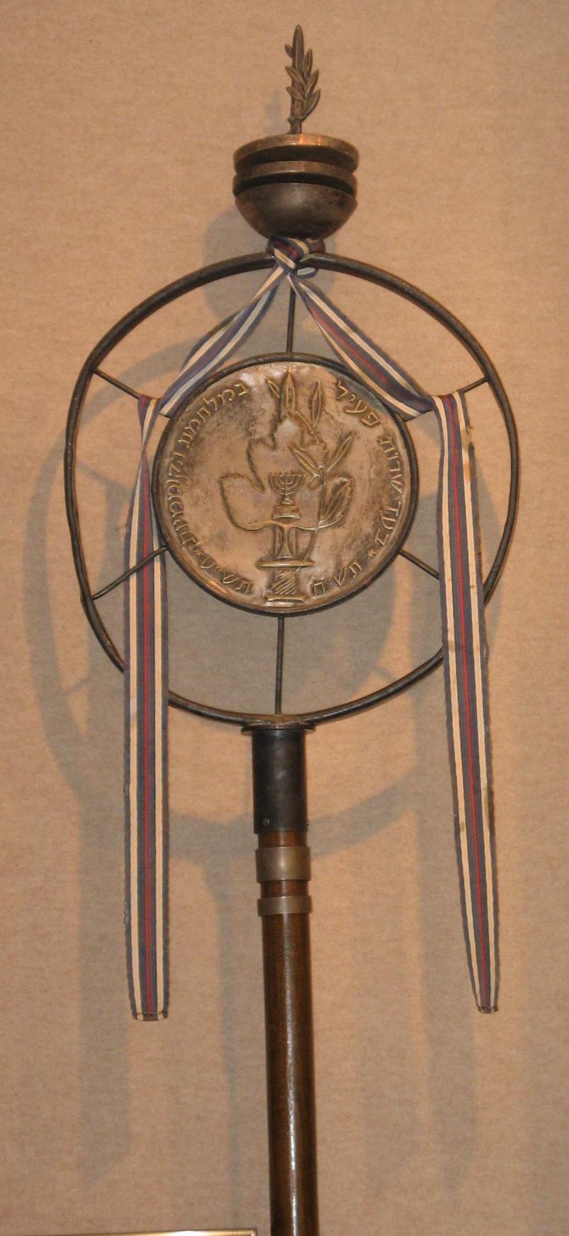 Nes Komimiyut as displayed in Deganya museum